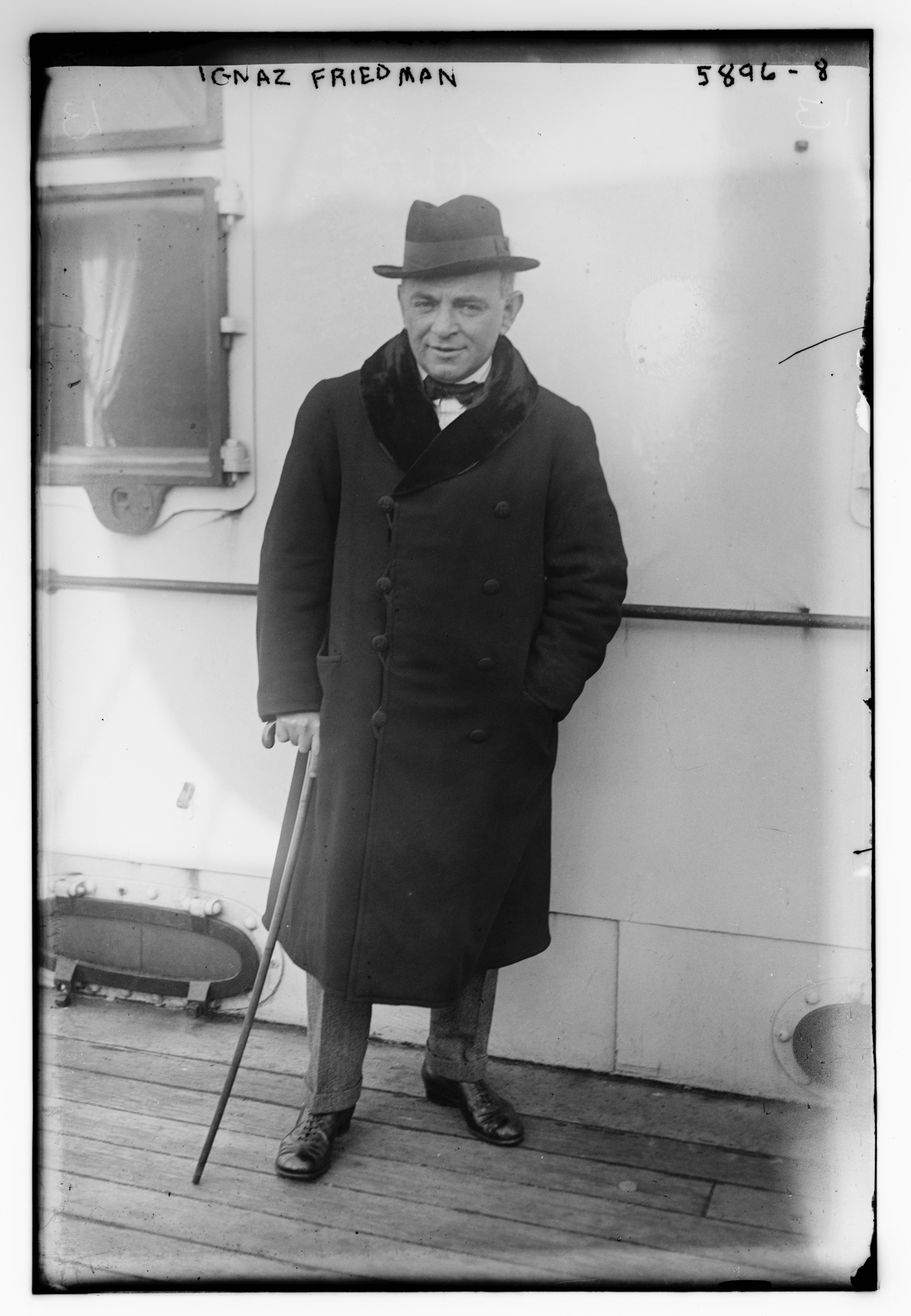 Title: Ignaz Friedman Abstract/medium: 1 negative : glass ; 5 x 7 in. or smaller.